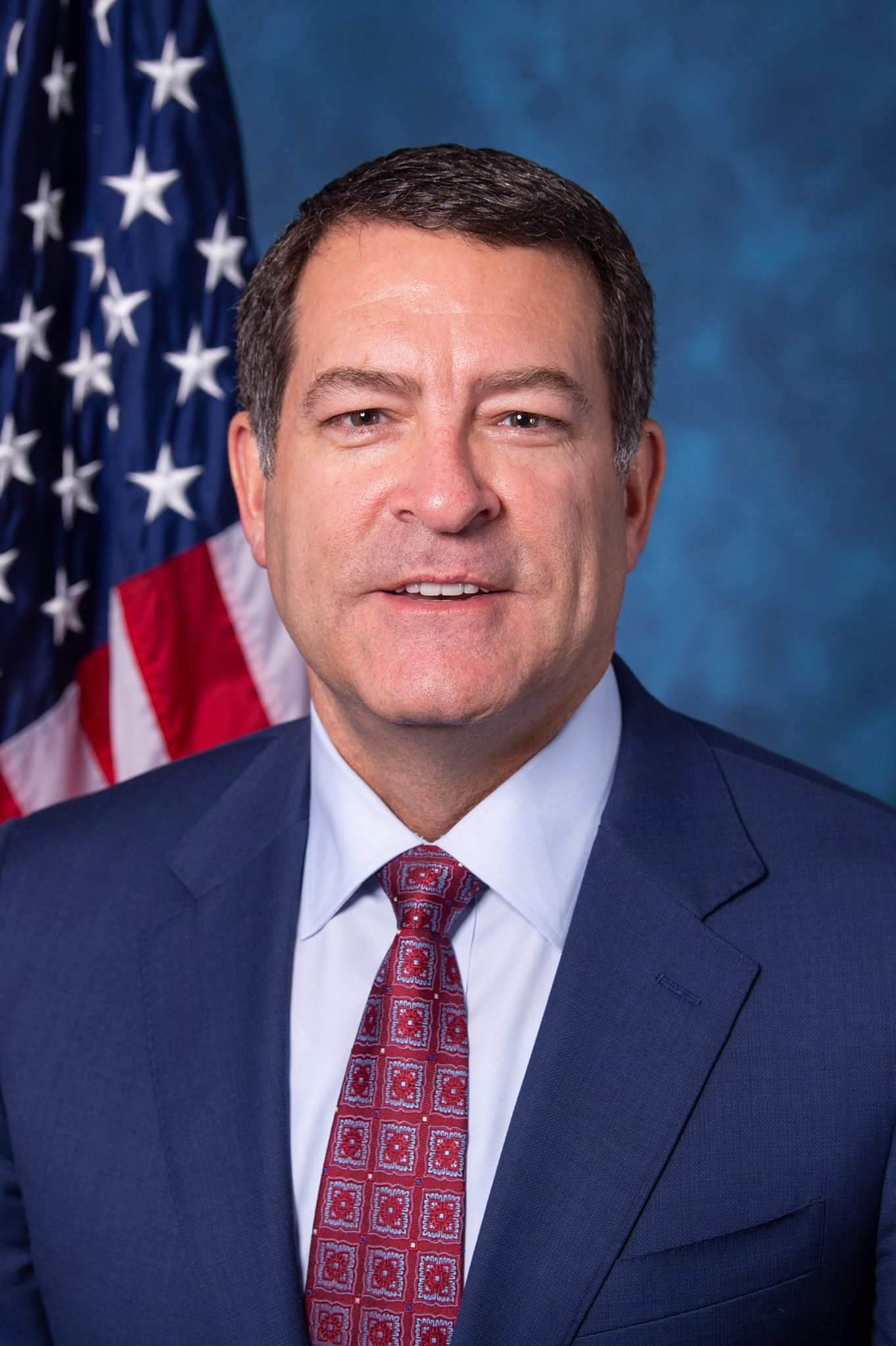 The official headshot of Rep. Mark Green (R-TN)